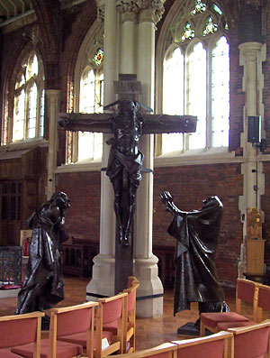 The Kelham Rood by Charles Jagger in St John the Divine Kennington, London